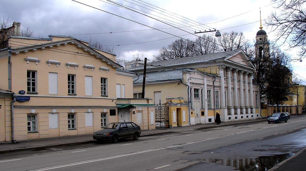 Bolshaya Nikitskaya Street, Moscow (view east onto Great Ascension Church)